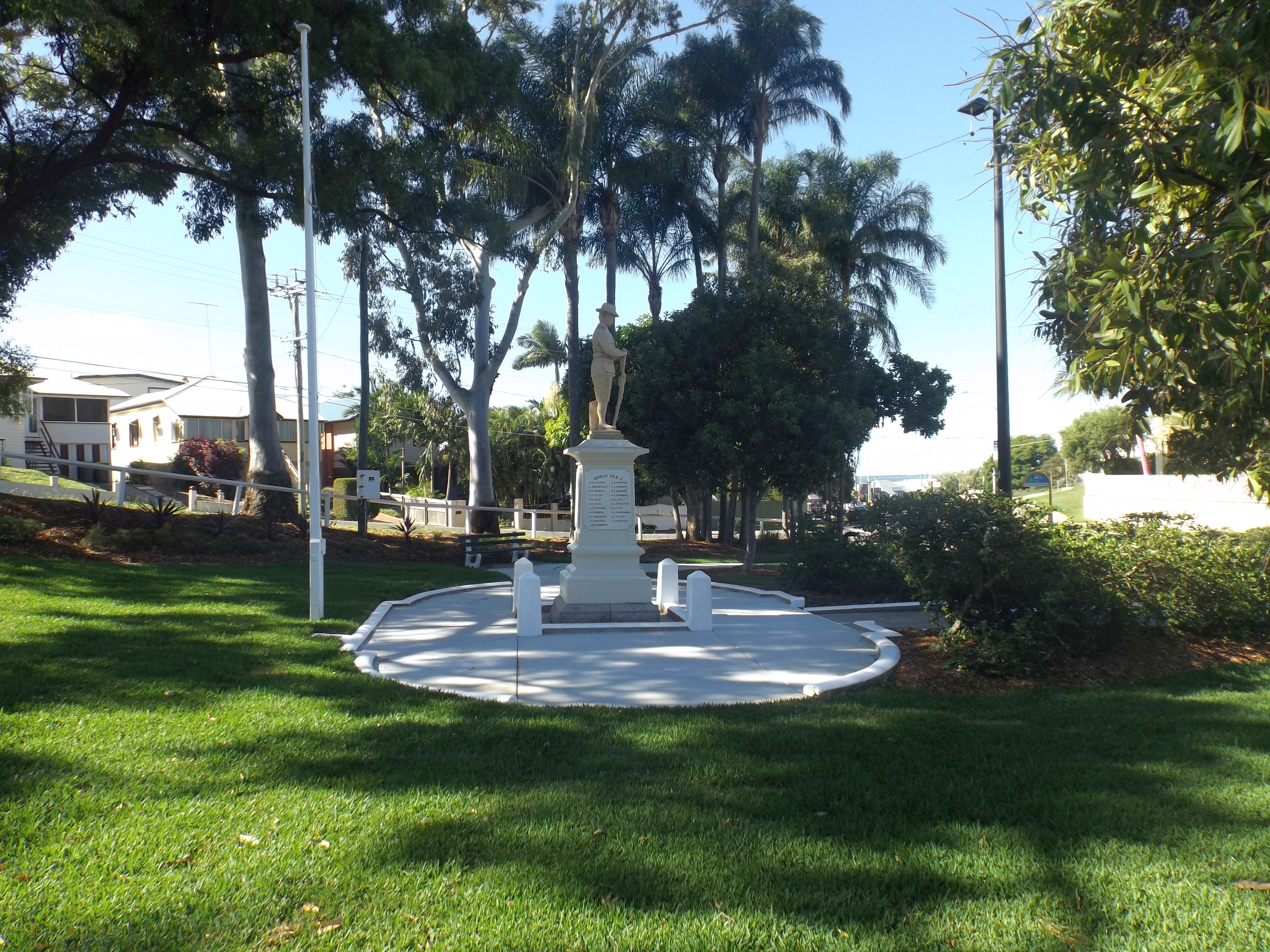 Photo of Manly War Memorial and park at Manly, Brisbane, Queensland, Australia.